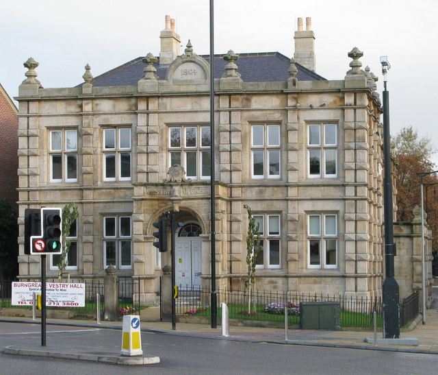 Vestry Hall, Burngreave Built in 1864 to accommodate the Brightside Bierlow Vestry which was the organisation responsible for administering the Poor Law in this part of Sheffield. Bierlow is a local word meaning ward or township.